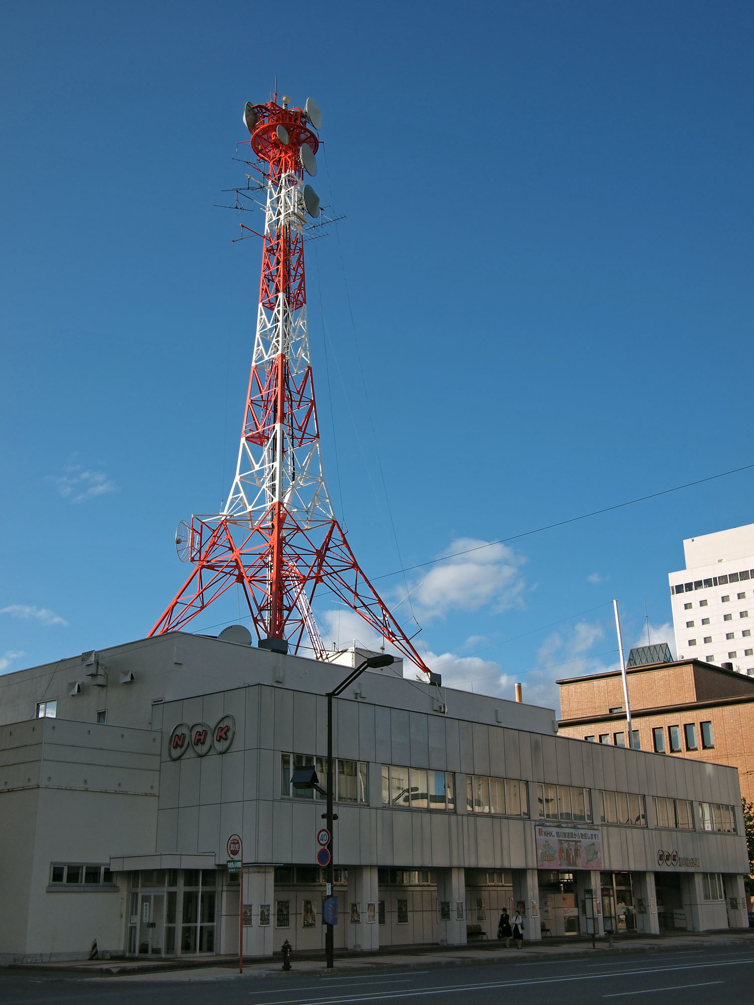 NHK Asahikawa Broadcasting Station in Asahikawa City, Hokkaido, Japan